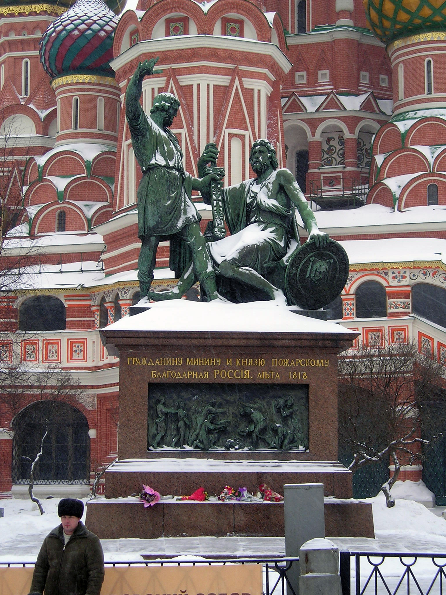 Monument to the citizen Minine and Prince Pojarski located on the Red Square in Moscow.